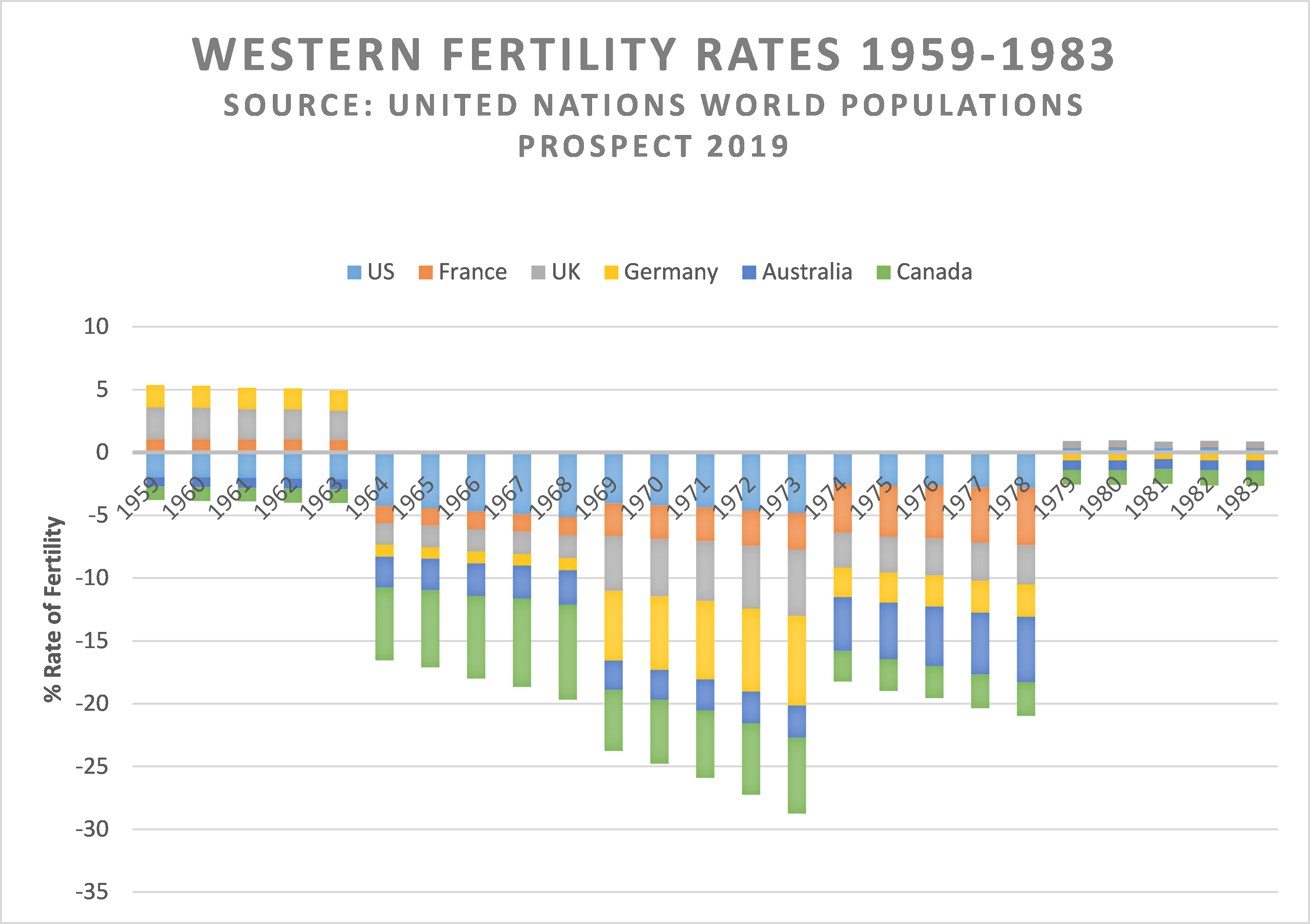 This graph shows declining western fertility rates during the period 1959-1983. Data Extract:"